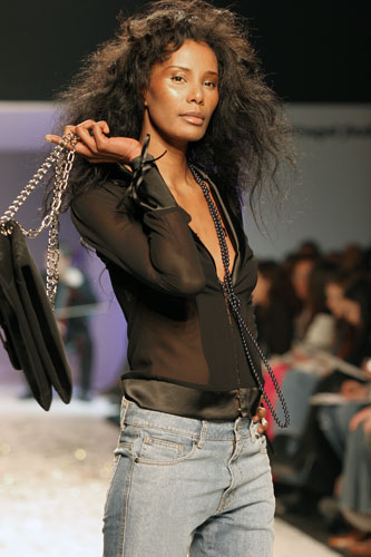 Nayma at the catwalk, dressed by Miguel Vieira